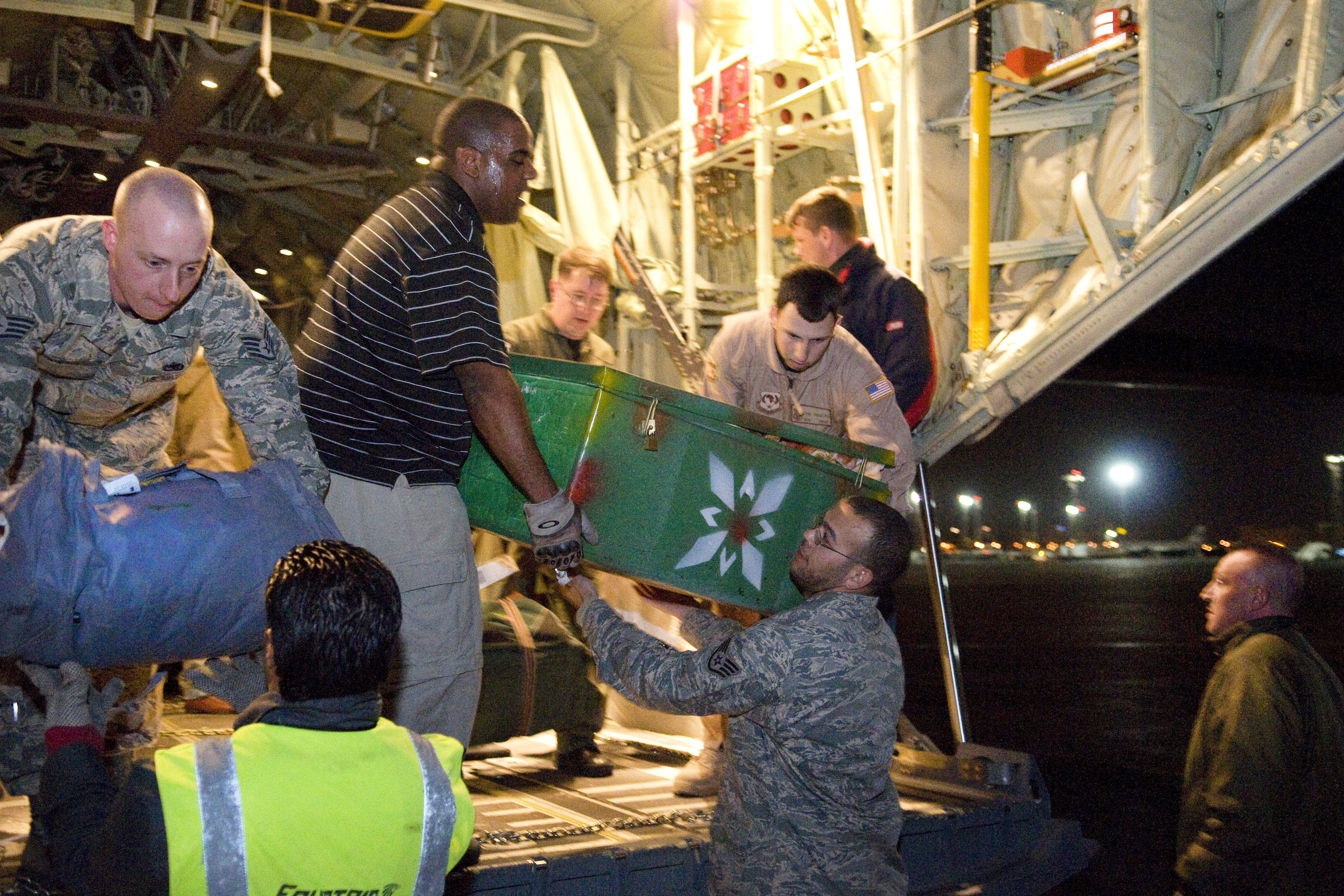 U.S. service members and Egyptian baggage handlers unload a U.S. Air Force C-130J aircraft after landing in Cairo, March 10, 2011. The aircraft carried Egyptian citizens who fled the conflict in Libya to Tunisia.